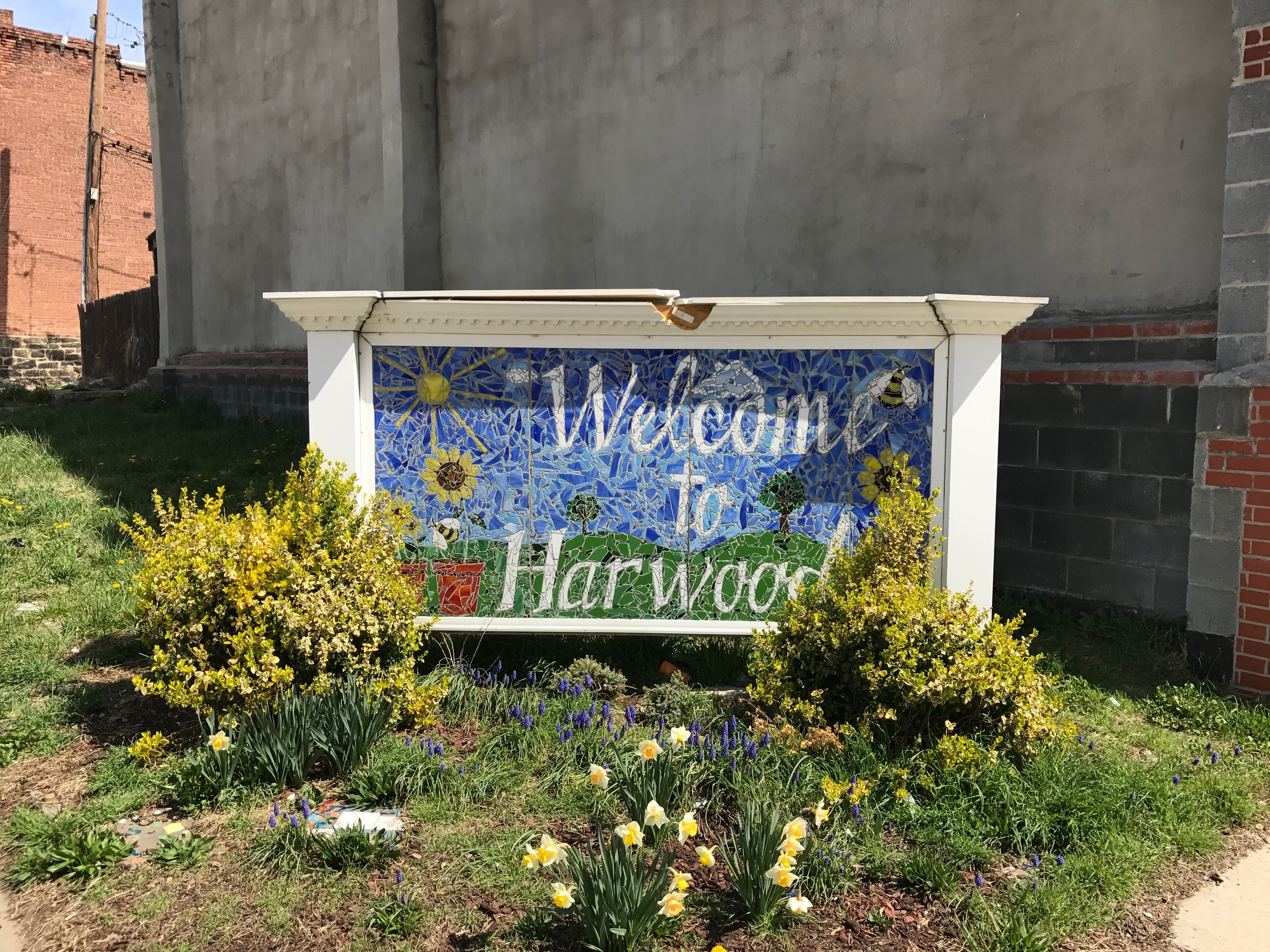 Photograph by Eli Pousson, 2017 April 3.